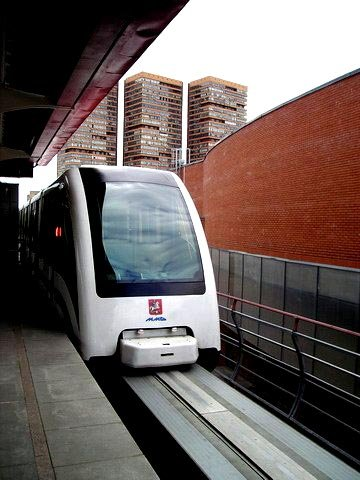 Moscow monorail